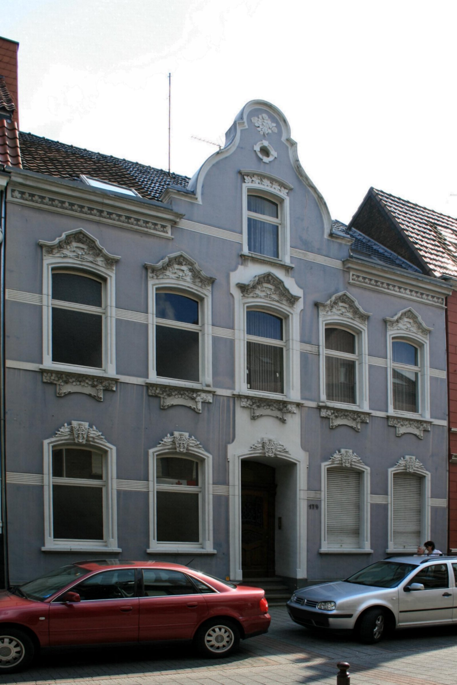 Cultural heritage monument No. K 074 in Mönchengladbach